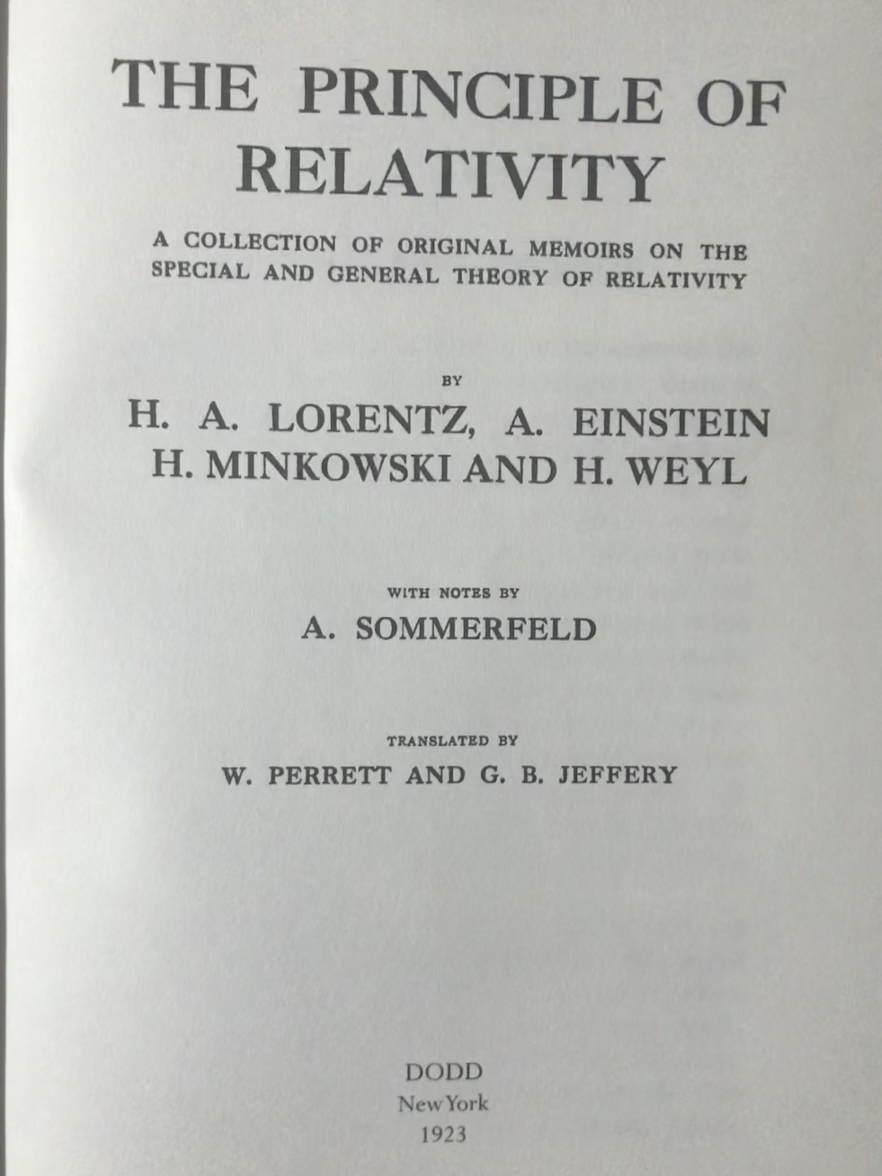 Cover page of book published in 1923 containing the papers of Einstein, Minkowsky, Lorentz, and Weyl.